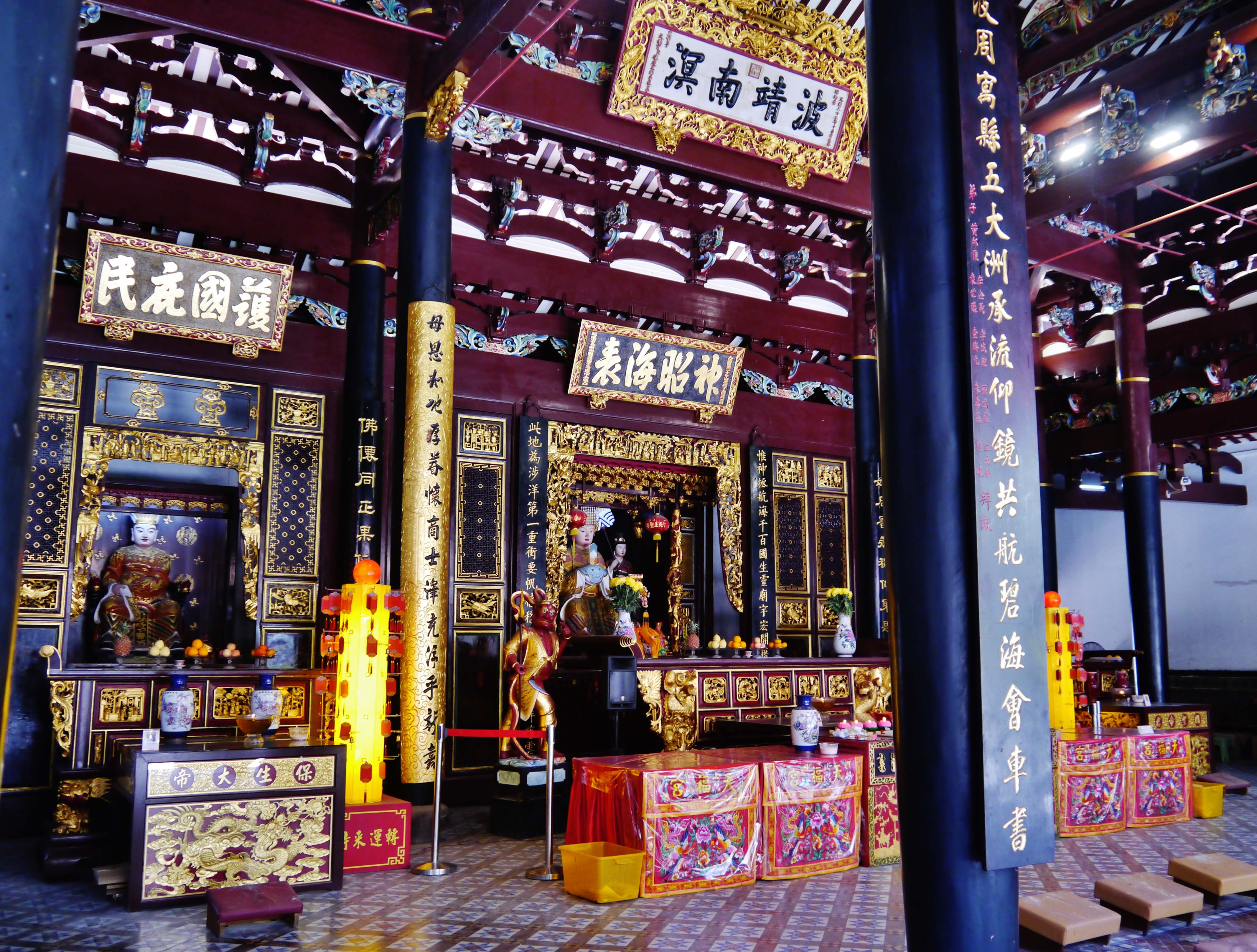 Prayer Hall of Thian Hock Keng Temple, Singapore